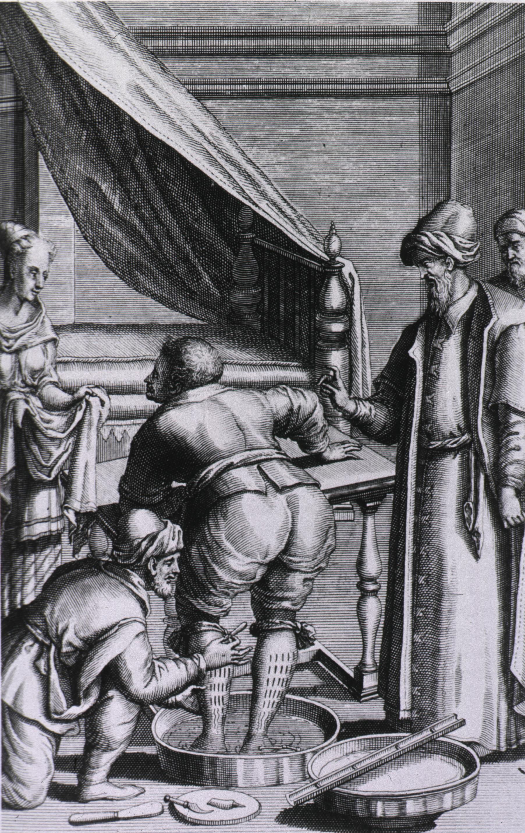 Author(s): Alpini, Prosper, 1553-1617, Author Publication: Lugduni Batavorum: Vid. & fil. Corn. Boutestein, 1718 Format: Still image Subject(s): Surgical Instruments Physicians Genre(s): Book illustrations Abstract: Interior scene: a man is making incisions with a lancet on the backs of the legs of a man standing in a tub of water; a woman stands to the left with a towel; other instruments and another tub are on the floor; the physician(?) stands to the right. Related Title(s): Is part of: Medicina Aegyptiorum, p. 198.; See related catalog record: 2435009R Extent: 1 print Technique: engraving NLM Unique ID: 101448093 NLM Image ID: A029501 Permanent Link